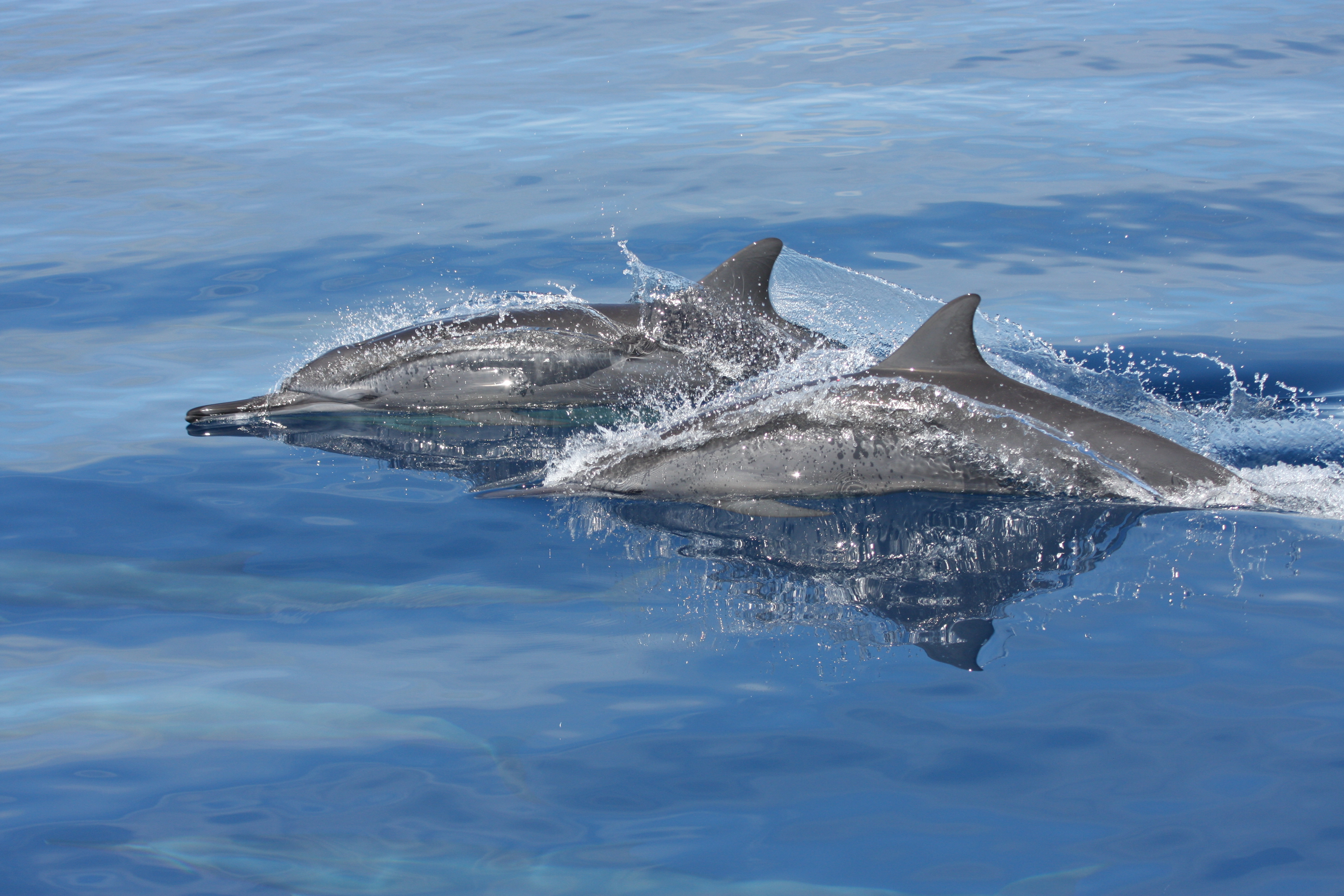 Marine mammals are highly migratory and depend on protected places like the Pacific Remote Islands Marine National Monument. Photo credit: Kydd Pollock